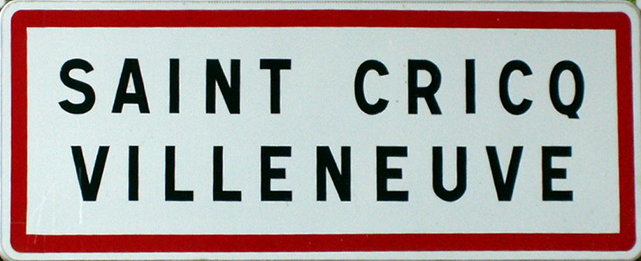 Panneau indicateur de Saint Cricq Villeneuve